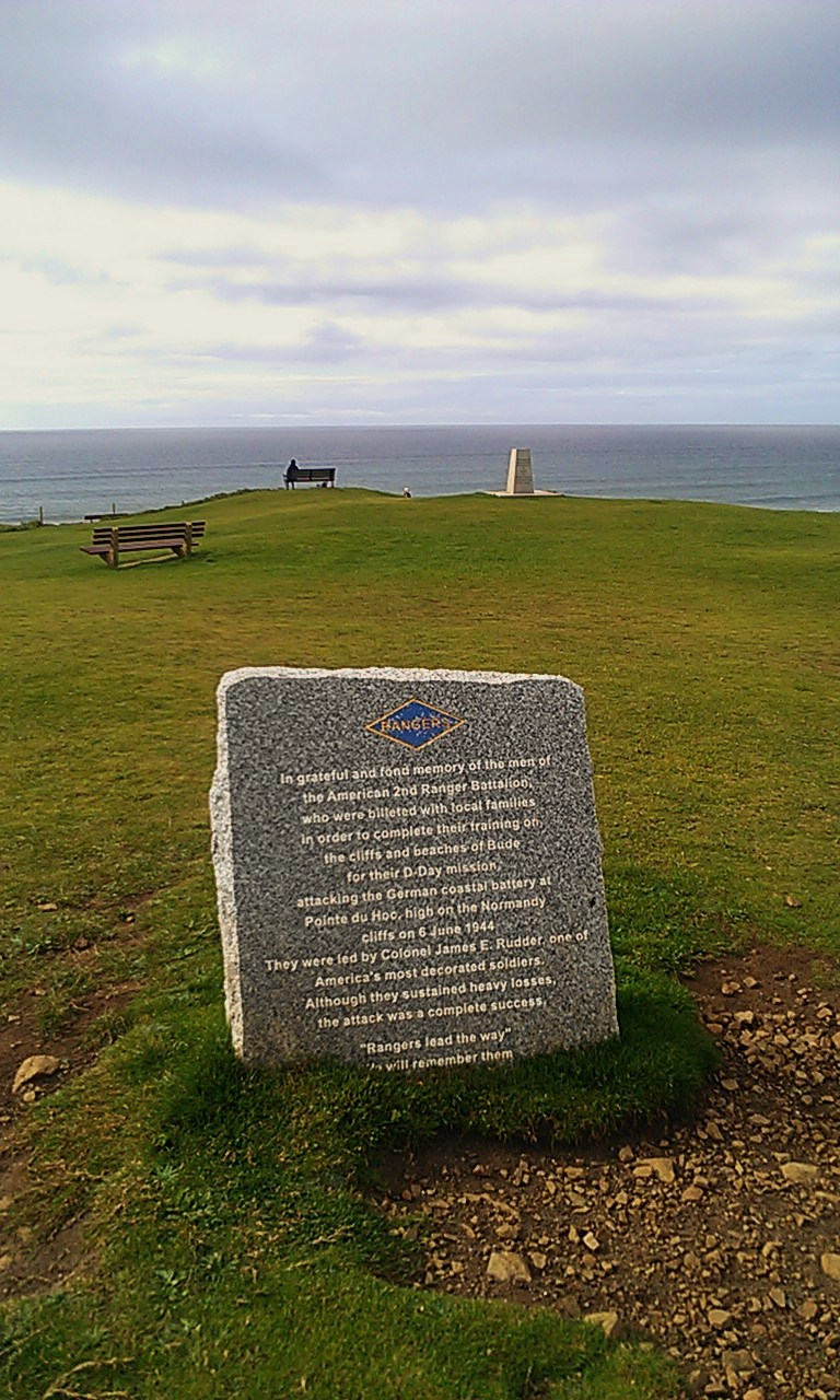 Memorial erected by the 2nd Ranger Battalion (United States) on the cliff at Bude in Cornwall to mark the time that they spent billeted in the town, preparing for the D-Day invasion.